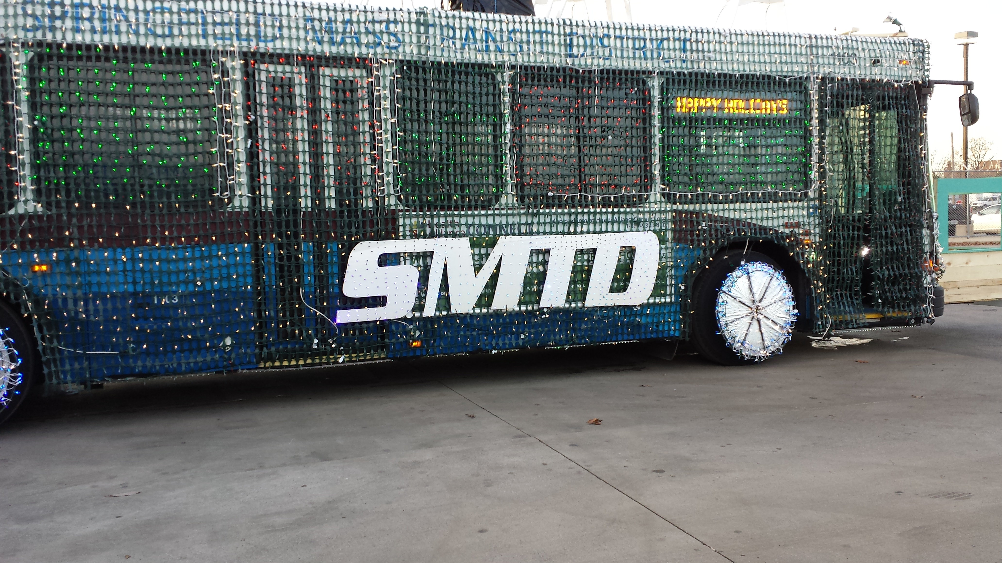 All lit up at night, the low floor Gillig 35ft Bus at Farm & Home Store for toys for tots